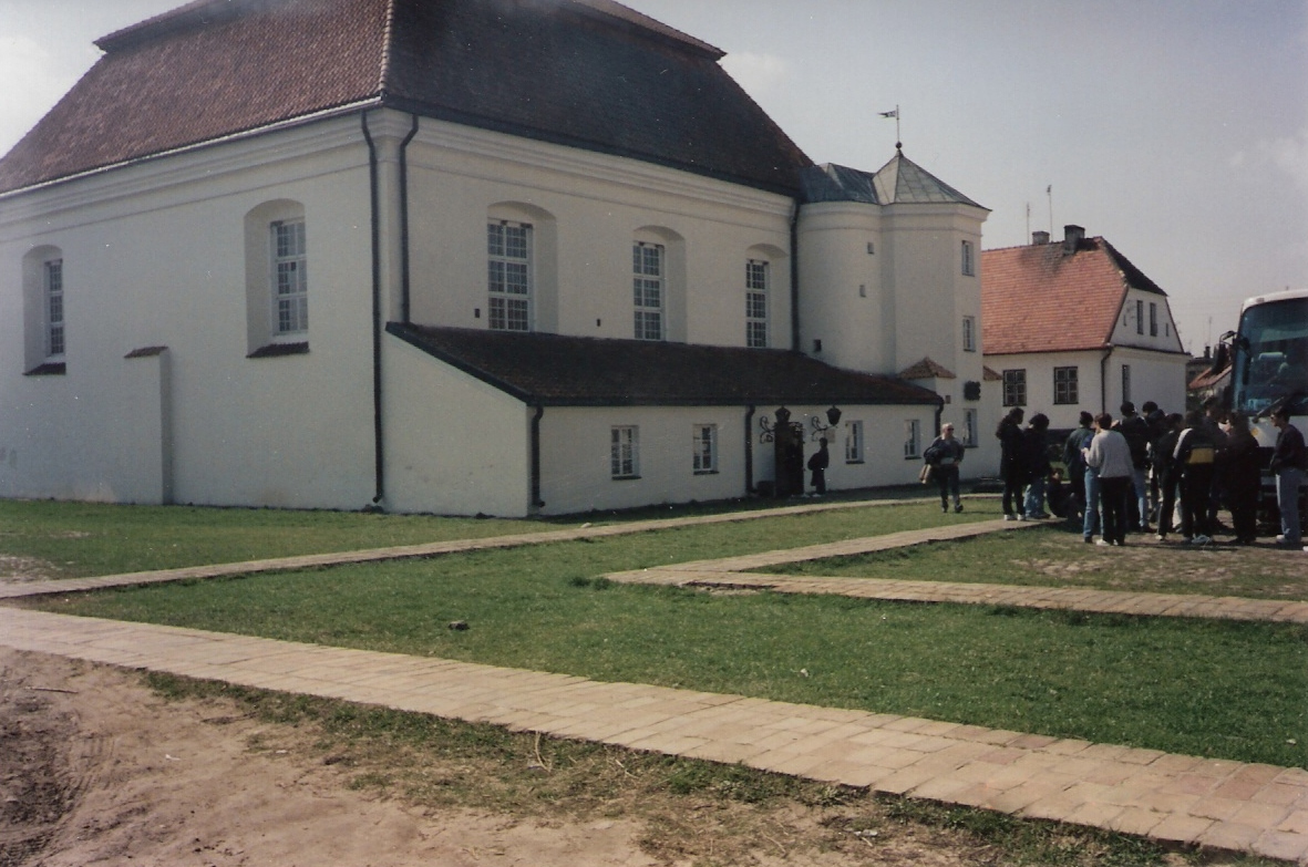 Great Synagogue in Tykocin, Poland.